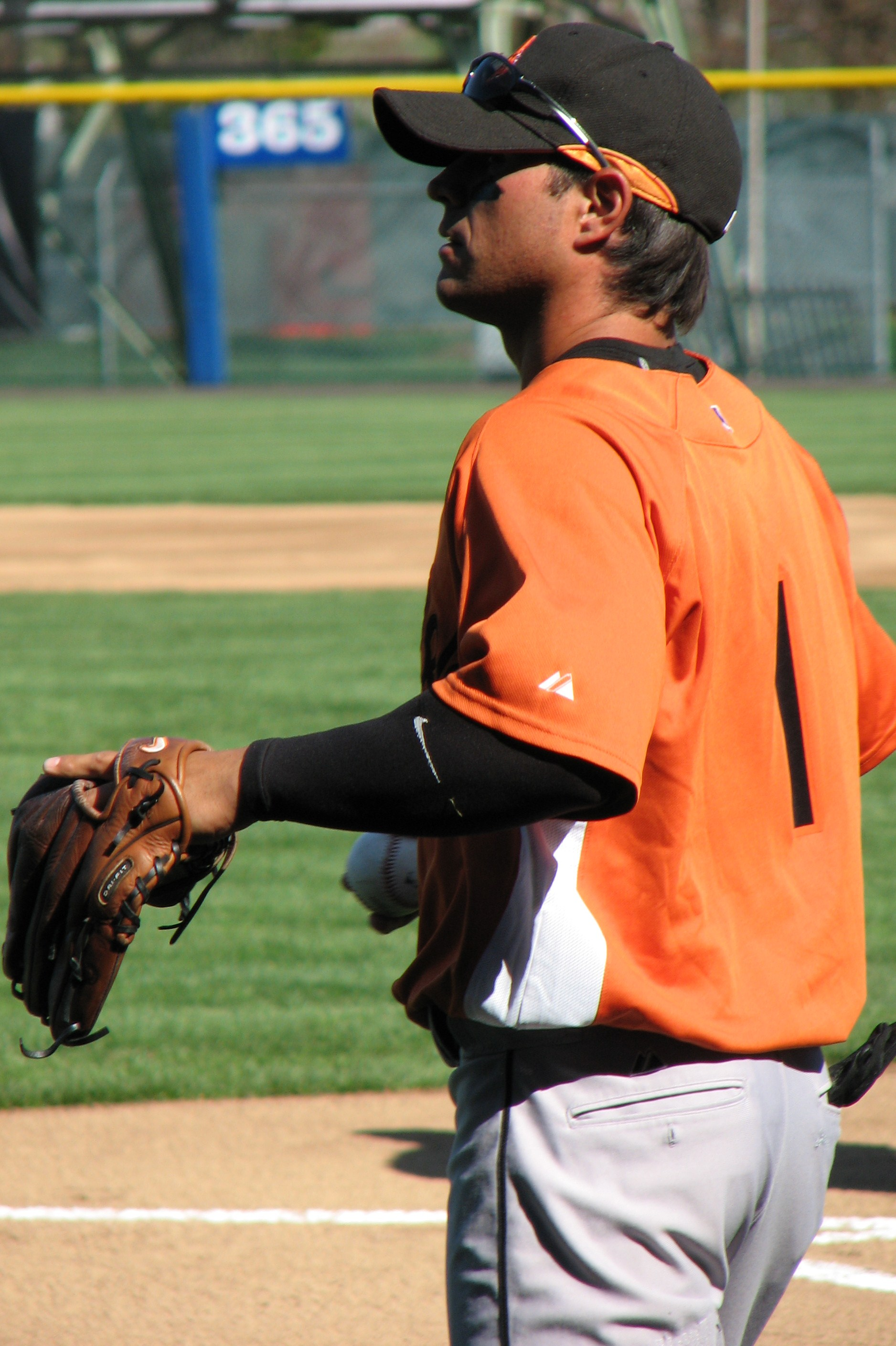 Brian Roberts